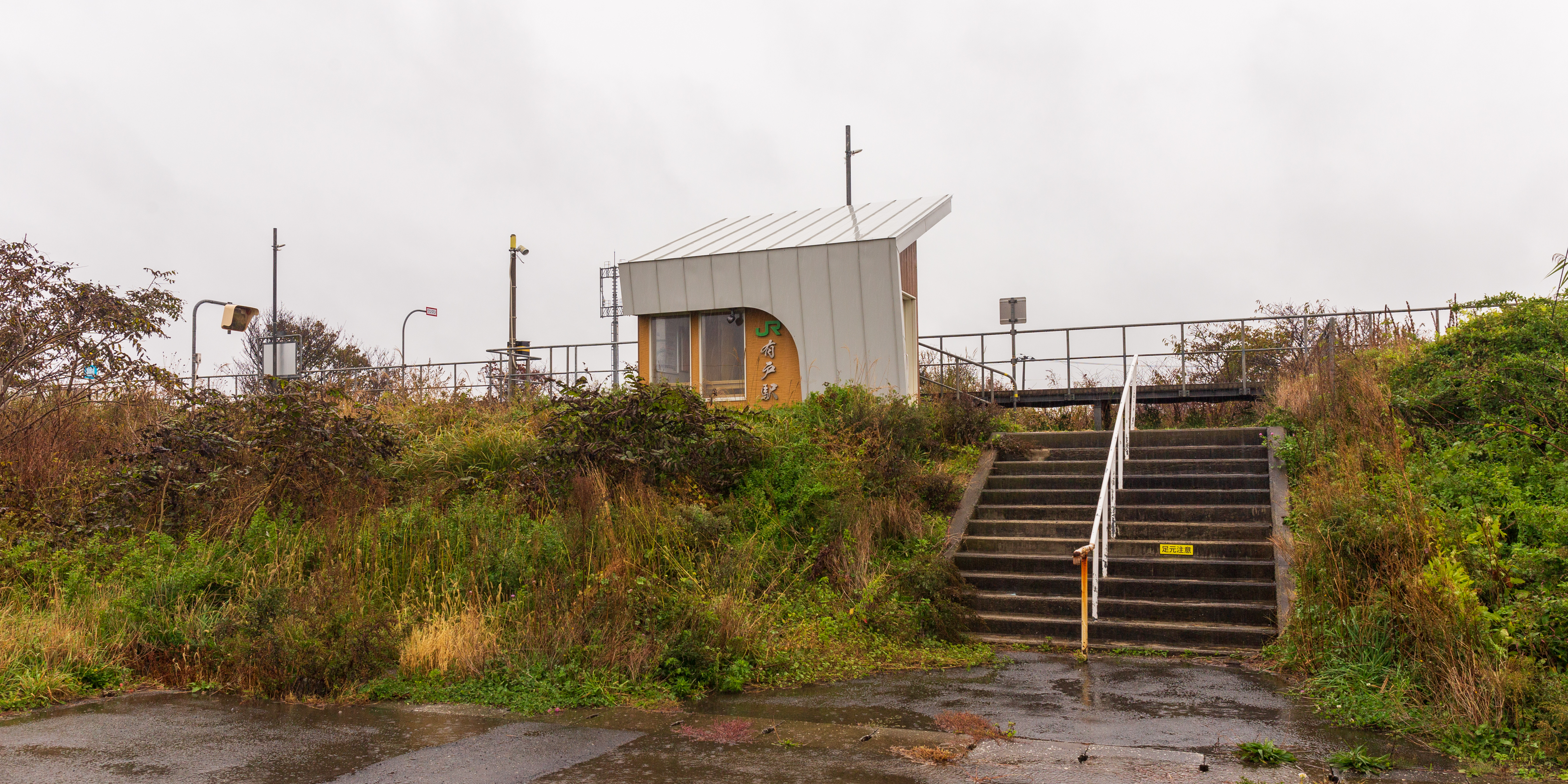 JR East Ominato Line Arito Station